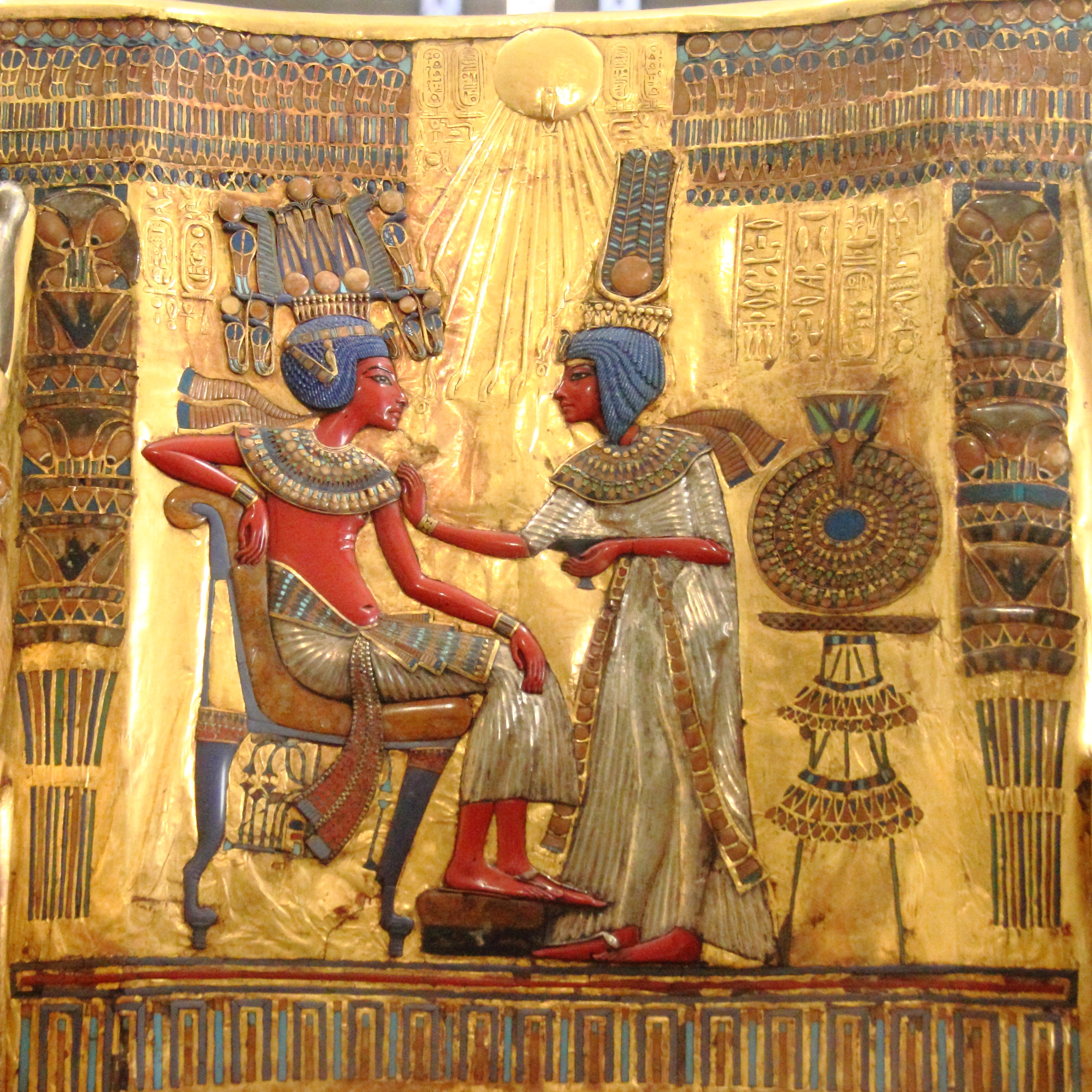 Egyptian Museum, Cairo: Gilded throne of the ancient Egyptian king Tutankhamun, wood, gold, glass, carnelian, from the tomb treasure of Tutankhamun (KV62), New Kingdom, 18th dynasty, ca. 1336-1327 BC